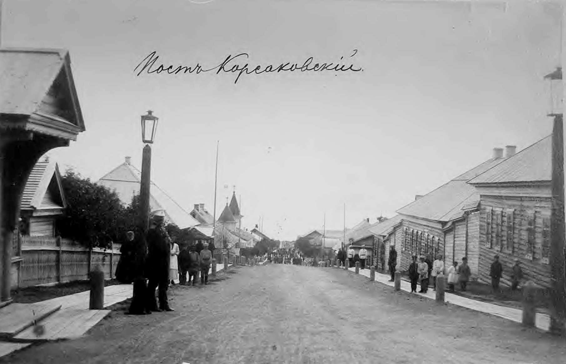 Main street of Korsakovsky (now Korsakov, Sakhalin region, Russia)